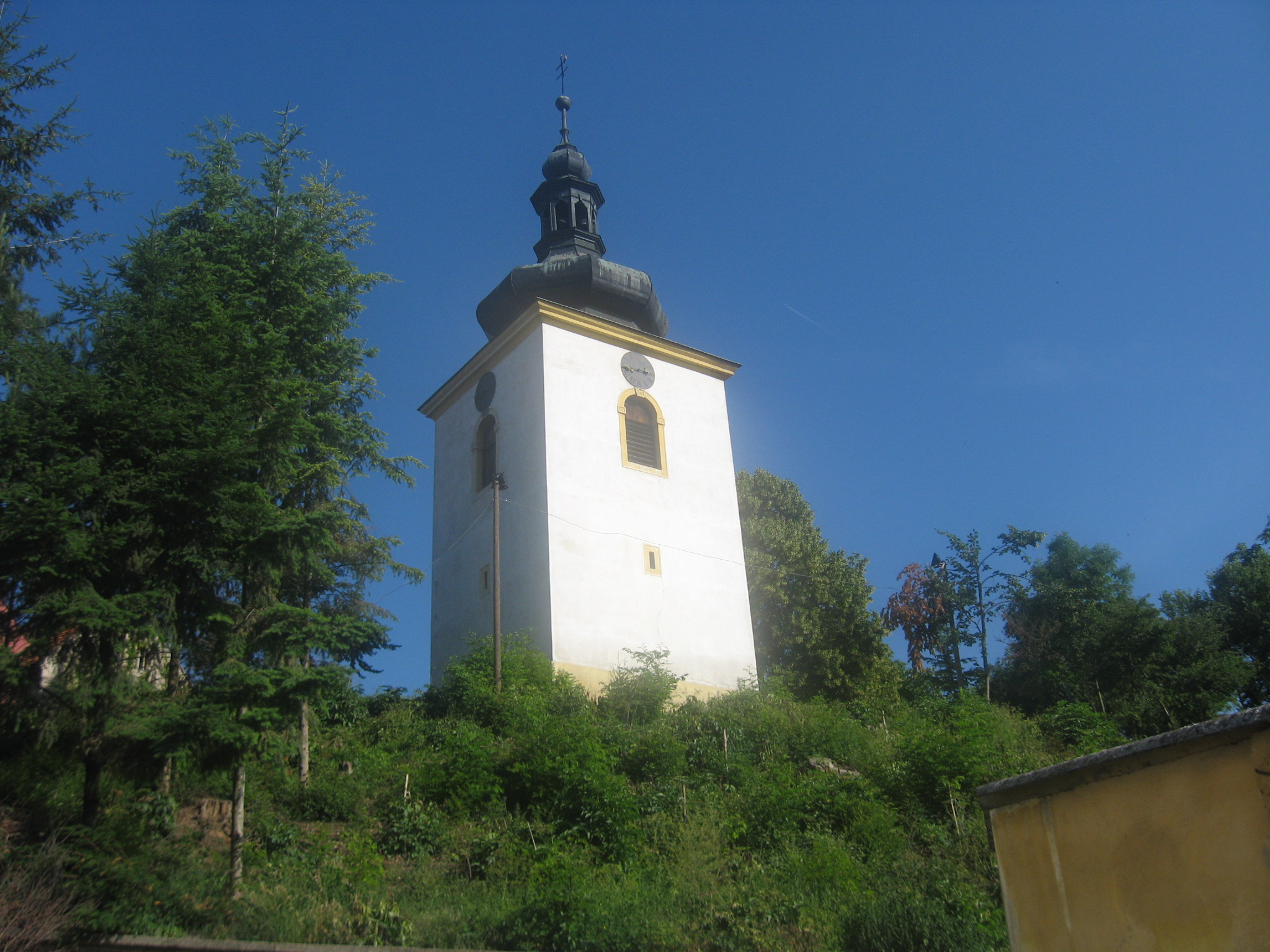 Bell Tower in Hřivice